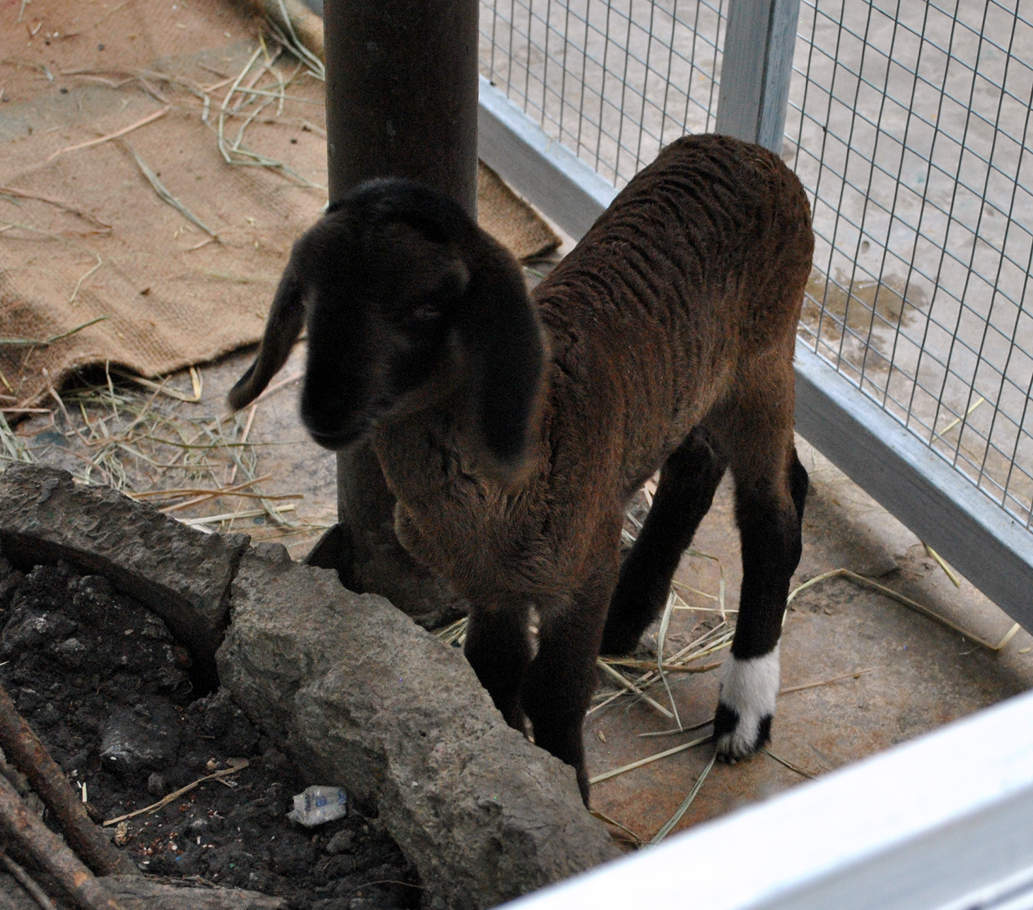 Lamb in Pata Zoo